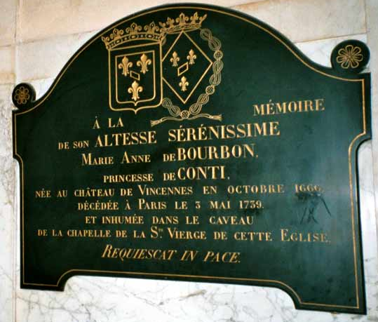 Memorial of Marie Anne de Bourbon, Princess of Conti ; in Saint-Roch church (Paris)